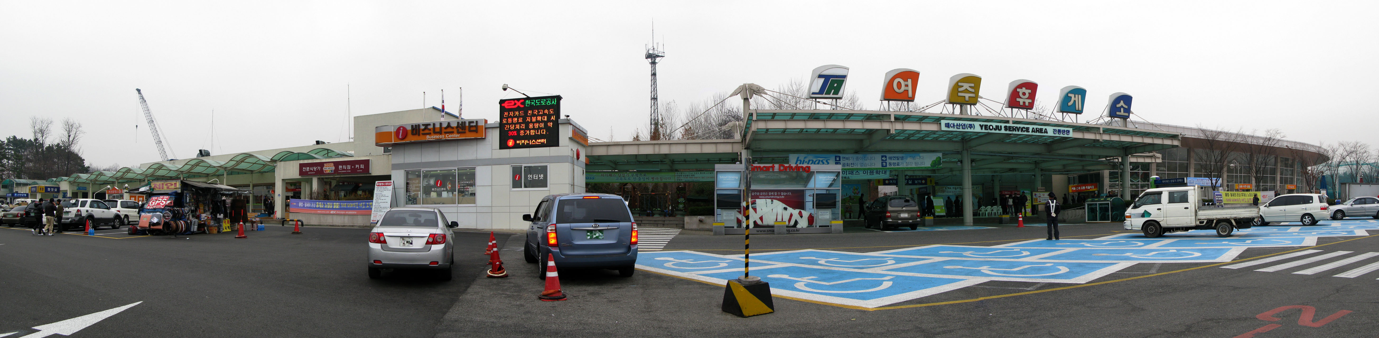 Yeongdong Expressway Yeoju Service Area